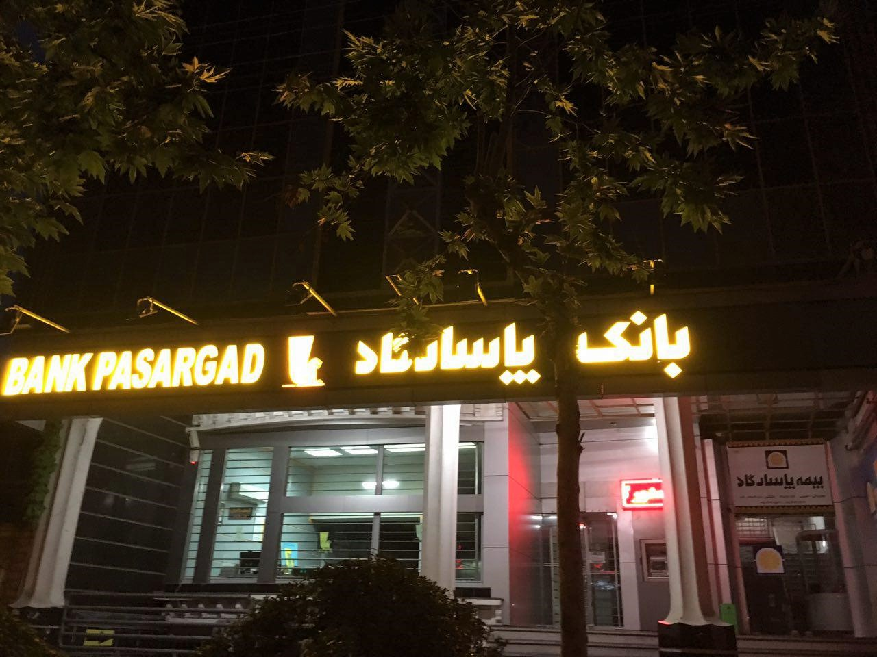 Pasargad Bank branch at Amol Photo by: Piangosl with iPhone 6S Plus